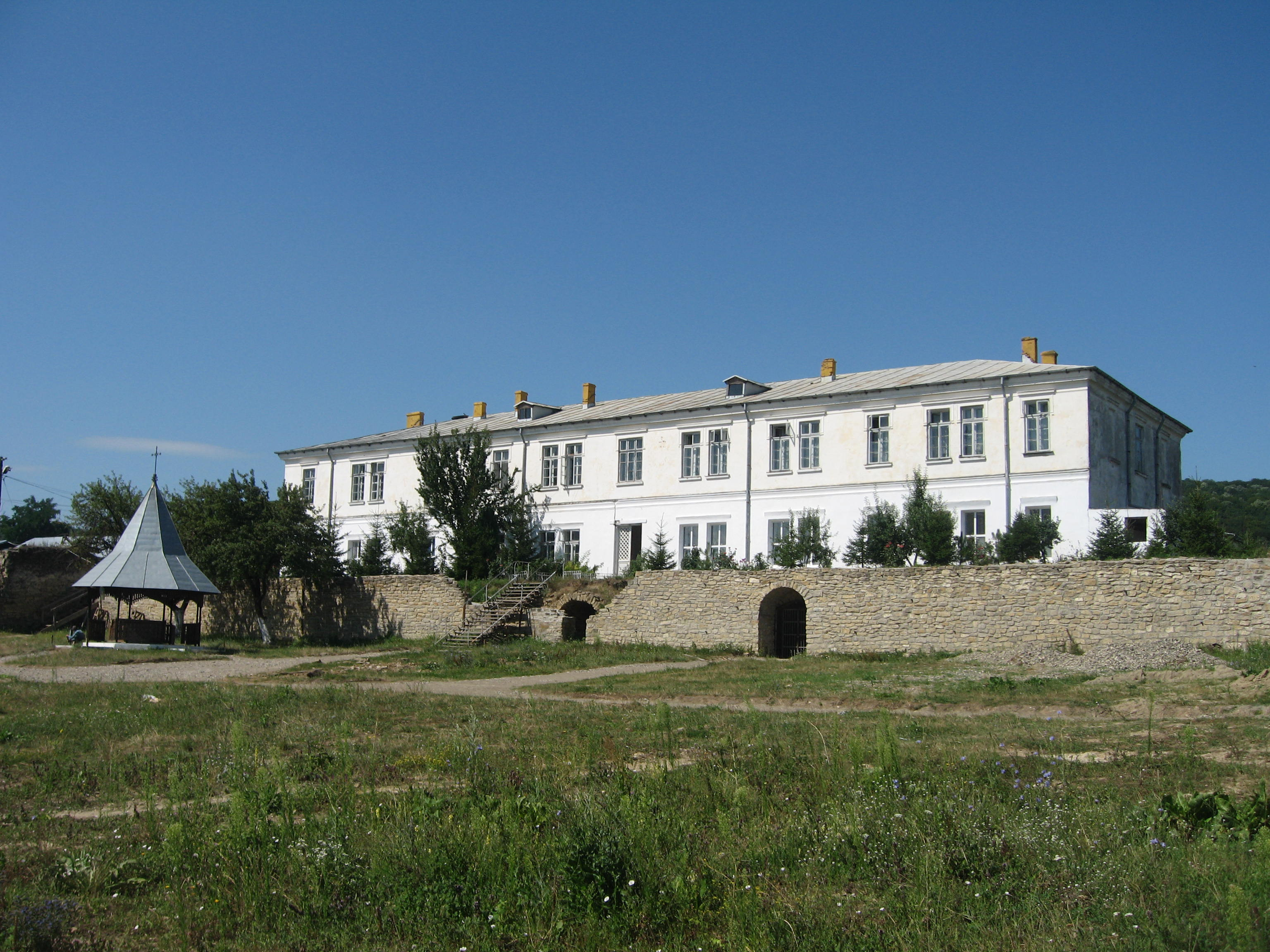 Mănăstirea Dobrovăţ